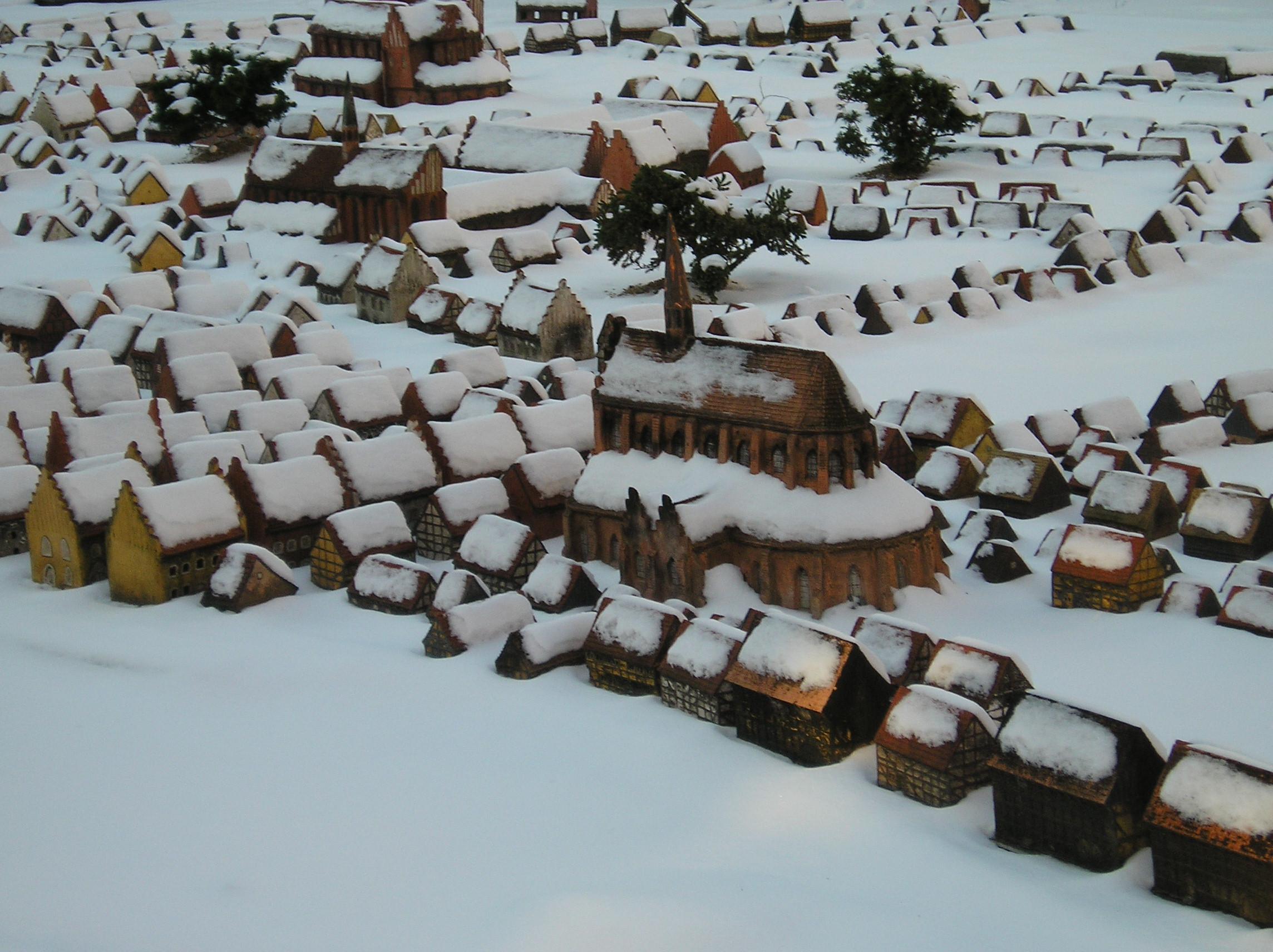 Sankt Nikolaj Kirke in the model of the medieval Copenhagen in front of the Museum of Copenhagen.